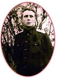 Fabian Shantyr